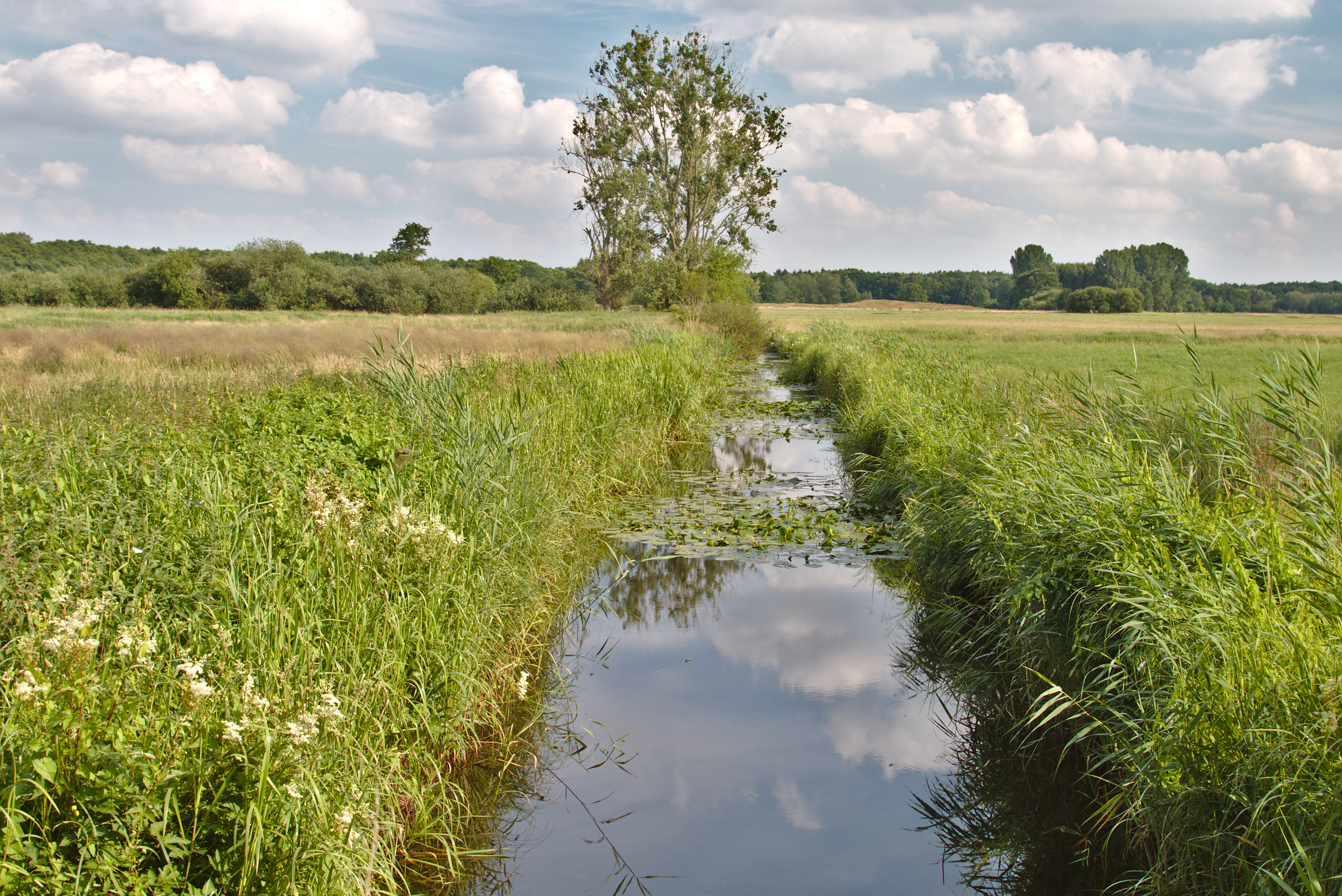 The western part of the Poggenpohlsmoor bogs in Ostrittrum village, Dötlingen municipality, Lower Saxony, Germany, with drainage ditch, viewed in the southeastern direction.